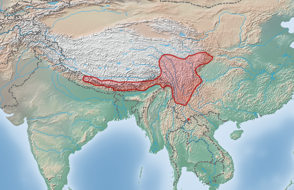 Geographic distribution of the Red Panda (Ailurus fulgens).